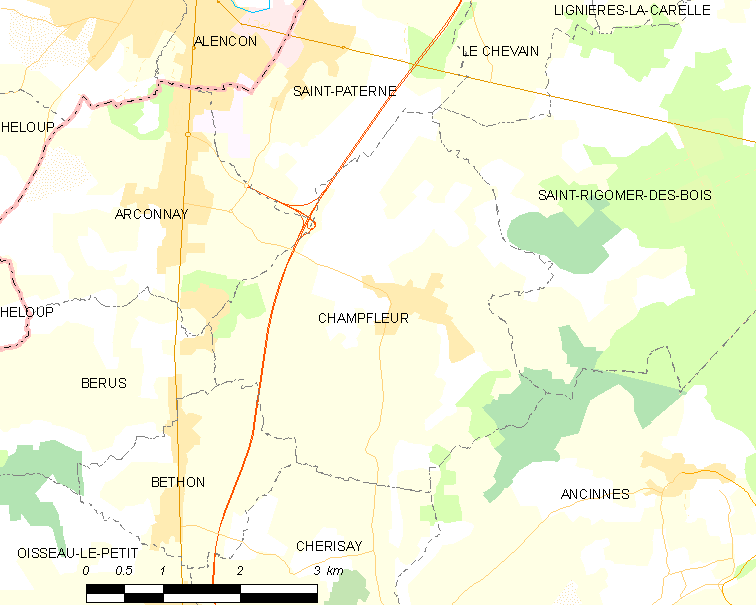 Map of French municipality